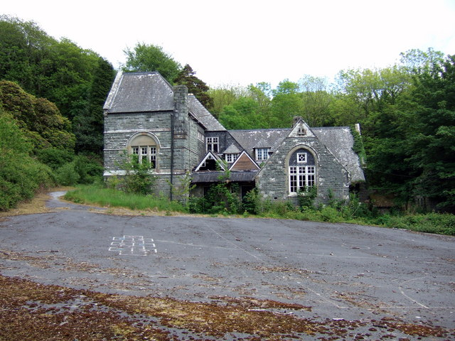 No more hopscotch, no more school Barham Primary closed in 2001 as part of Pembrokeshire's 'rationalisation' policy towards smaller schools. Its rolls had fallen following the decommissioning of the naval depot and consequent loss of jobs/population in the community. Its building in 1875 was funded by the Barham family of the nearby mansion, in a curious mix of architectural styles. It now lies derelict and sadly missed after educating several generations of local people.